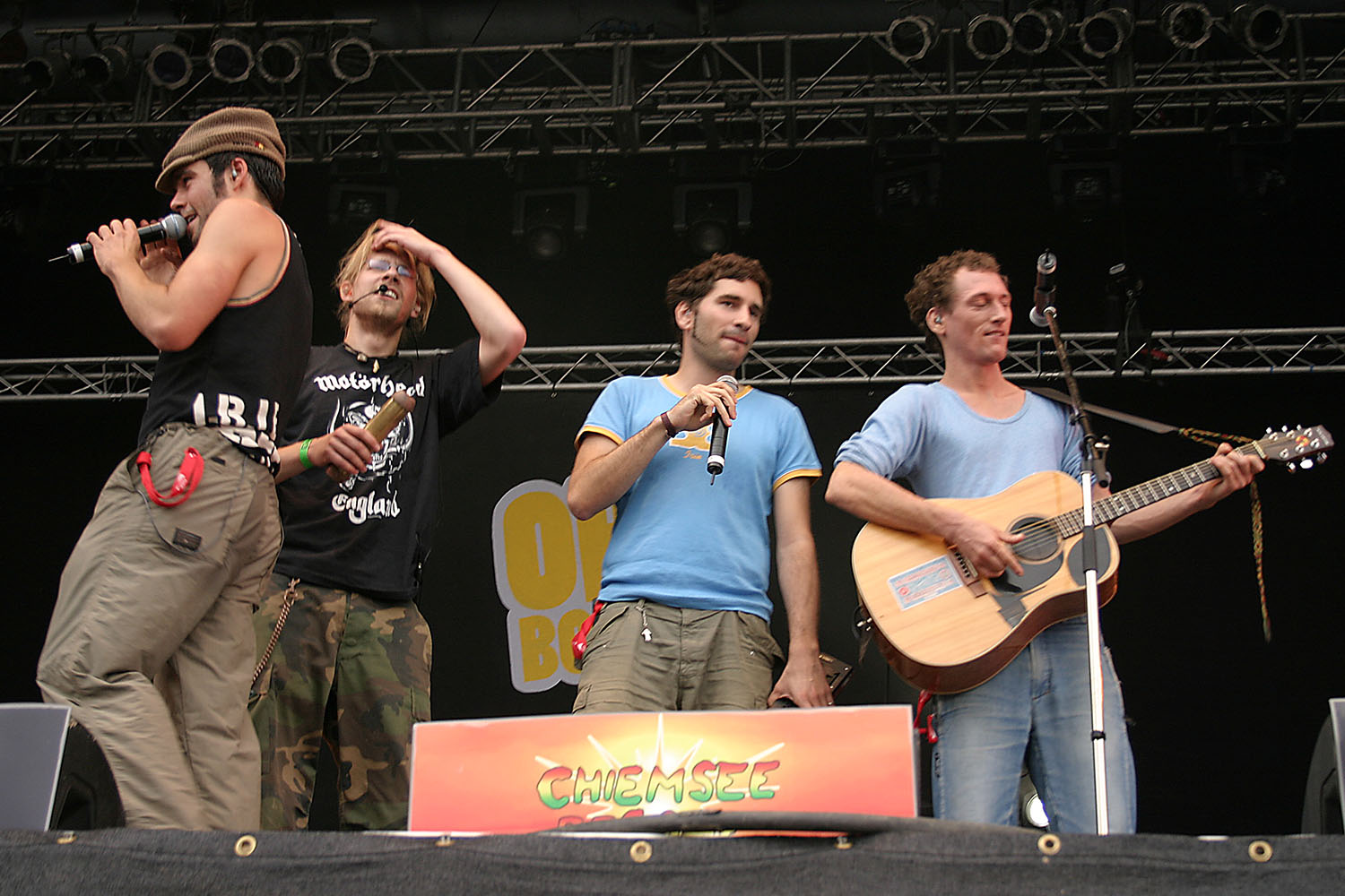 Ohrbooten at Chiemsee Reggae Summer 2005